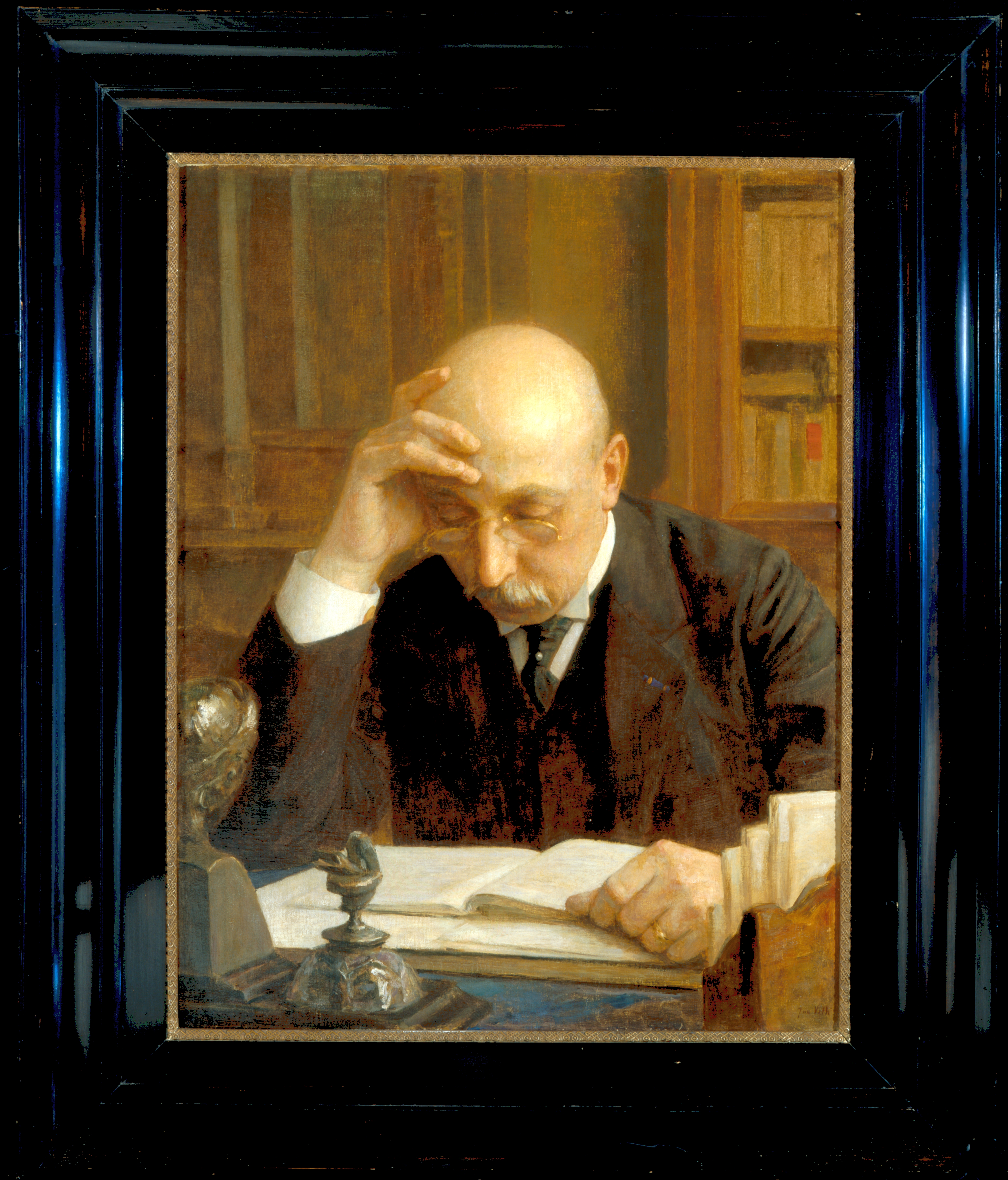 Painting of Johan Karel August Wertheim Salomonson (1864-1922) by Jan Veth (1864-1925)